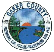 The official seal of Baker County, Florida.